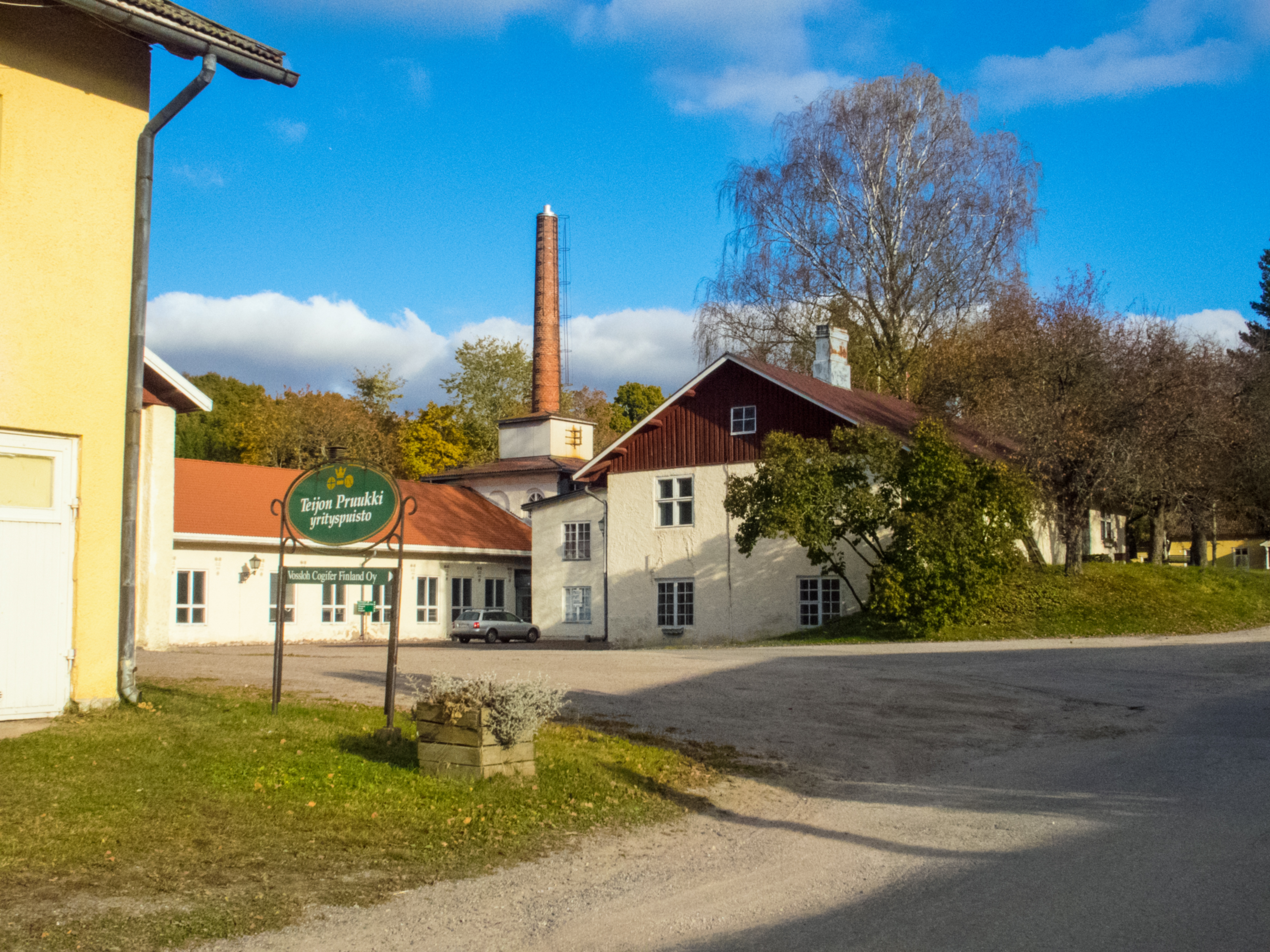 Old ironworks buildings in Teijo, Perniö, Salo, Finland.